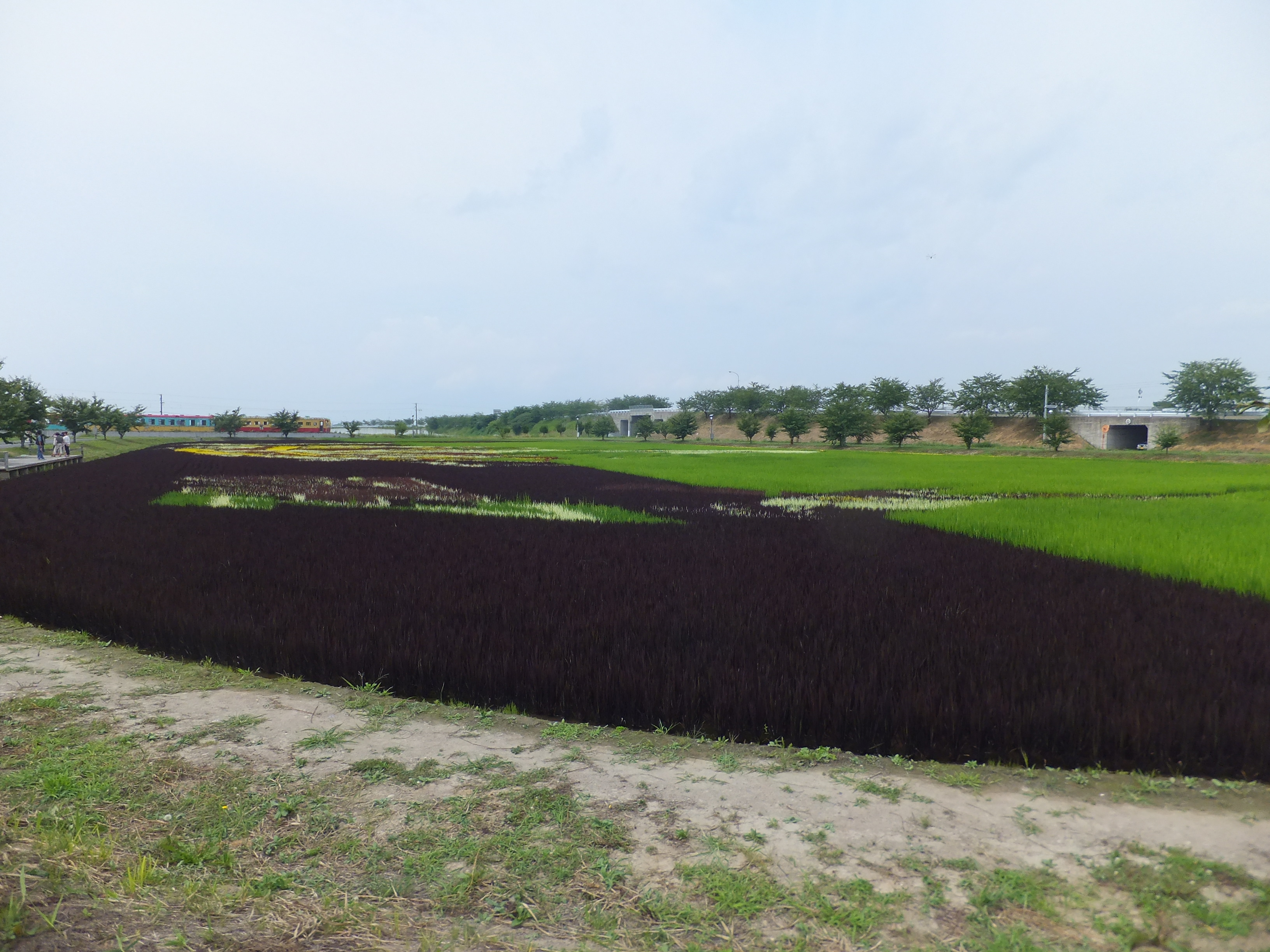 From Inakadate service station “Yayoi village” towards village administration building. Tanbo art rice field 2012, subject unknown.